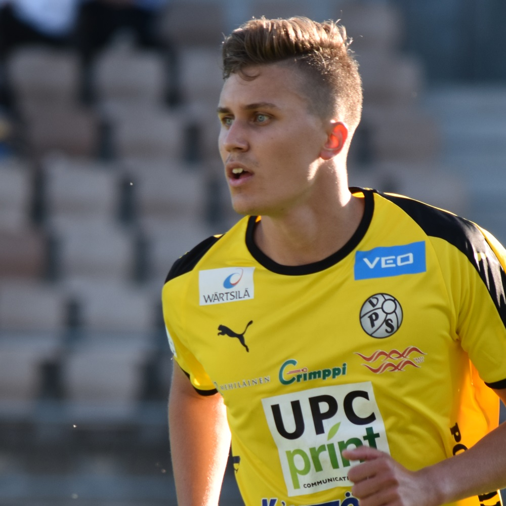 Association football player Eero-Matti Auvinen (VPS)